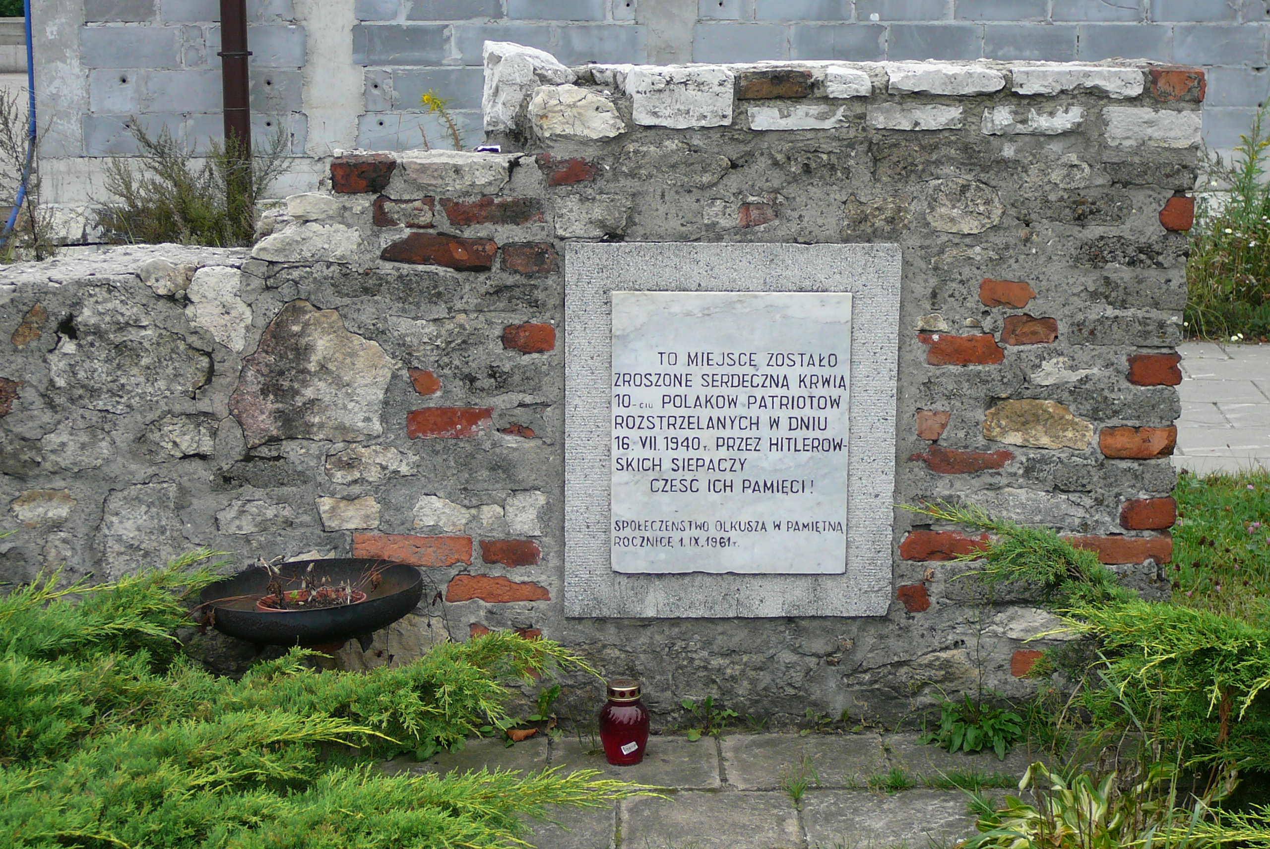 Struggle and Martyrdom commemorative plaque in Olkusz (near the crossroad of Mickiewicza street and Route 94). 10 Polish hostages were murdered there by Nazi-German occupants on 16 July 1940. A total of 20 hostages were murdered that day in Olkusz. Their execution lead to the events known as „Bloody Wednesday in Olkusz” (July 31, 1940).